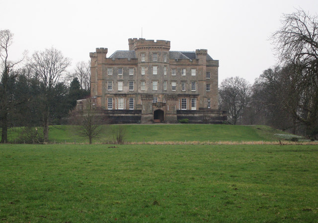 Caprington Castle Majestic house home of Cuninghames and the very helpful Mrs Cuninghame. Great to walk around and great for snowdrops at this time of year.